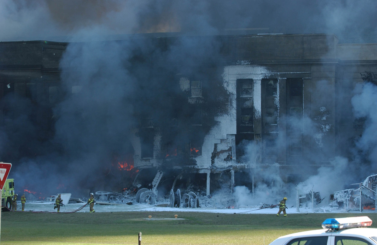 A photograph of The Pentagon before it collapsed after being attacked on September 11, 2001, taken by USMC Corporal Jason Ingersoll in the course of his duties. This photo can be found on: Photos from the same set have appeared on official US military websites